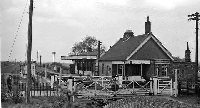 Barnwell (Northants.) StationView northward, on Northampton - Peterborough (East) secondary main line, closed 4/5/64.